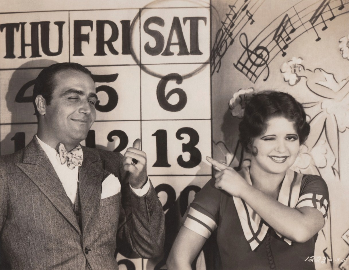 James Hall & Clara Bow in The Saturday Night Kid - publicity still (cropped)